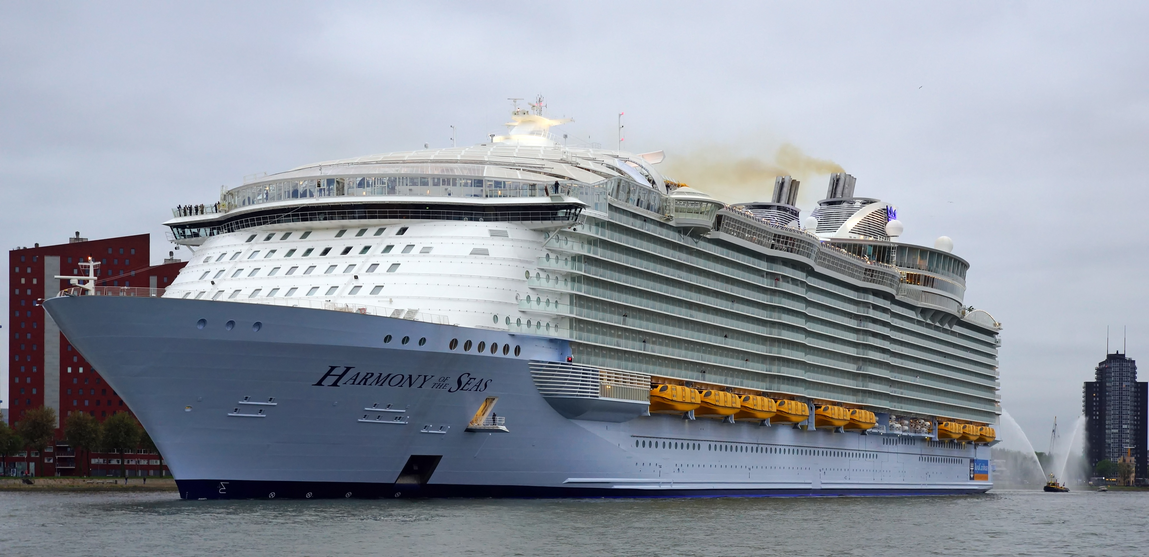 Cruiseship Harmony of the Seas in Rotterdam